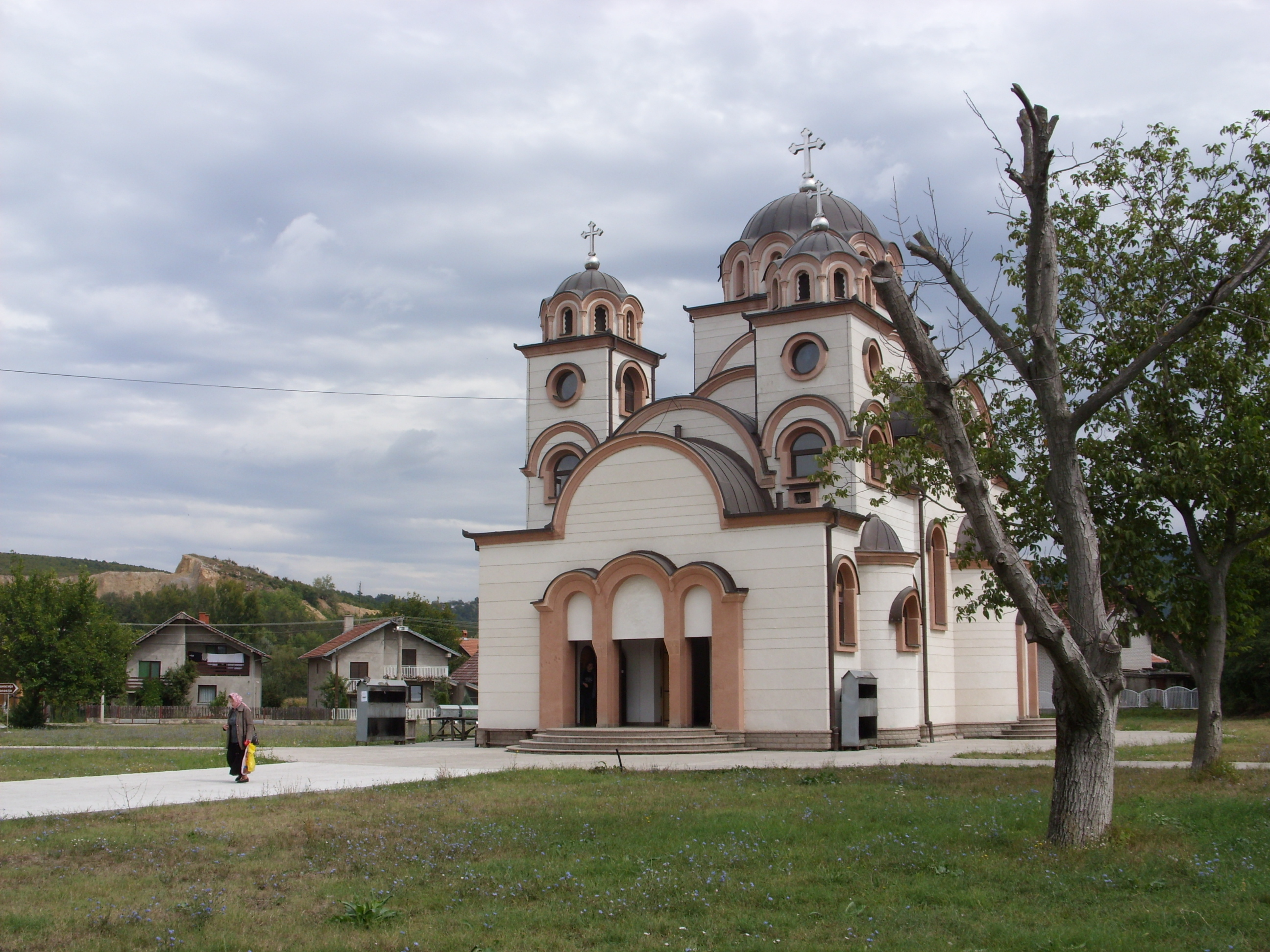 New orthodox church in Despotovac, Serbien. Hornjoserbsce: Nowa ortodoksna cyrkej w serbiskej Despotovaće.